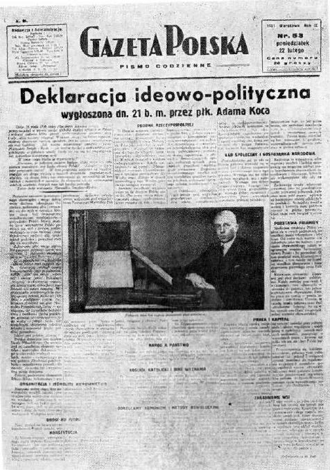 Front page of Polish newspaper Gazeta Polska, 22 February 1937